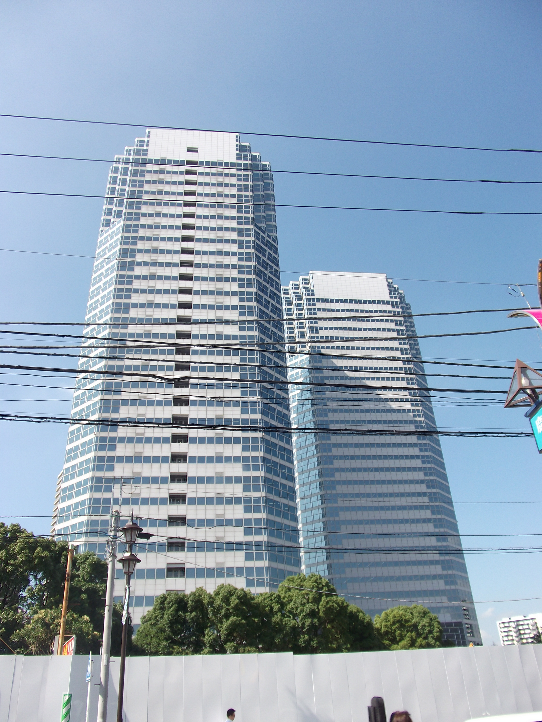 Shin-Kawasaki Mitsui building.